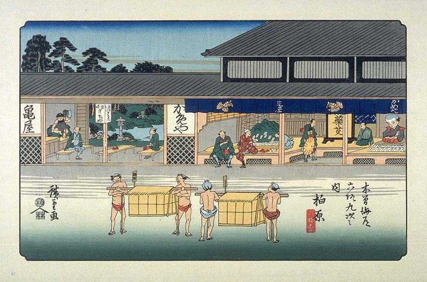 Kashiwabara on the Kisokaido, ukiyo-e prints by Hiroshige